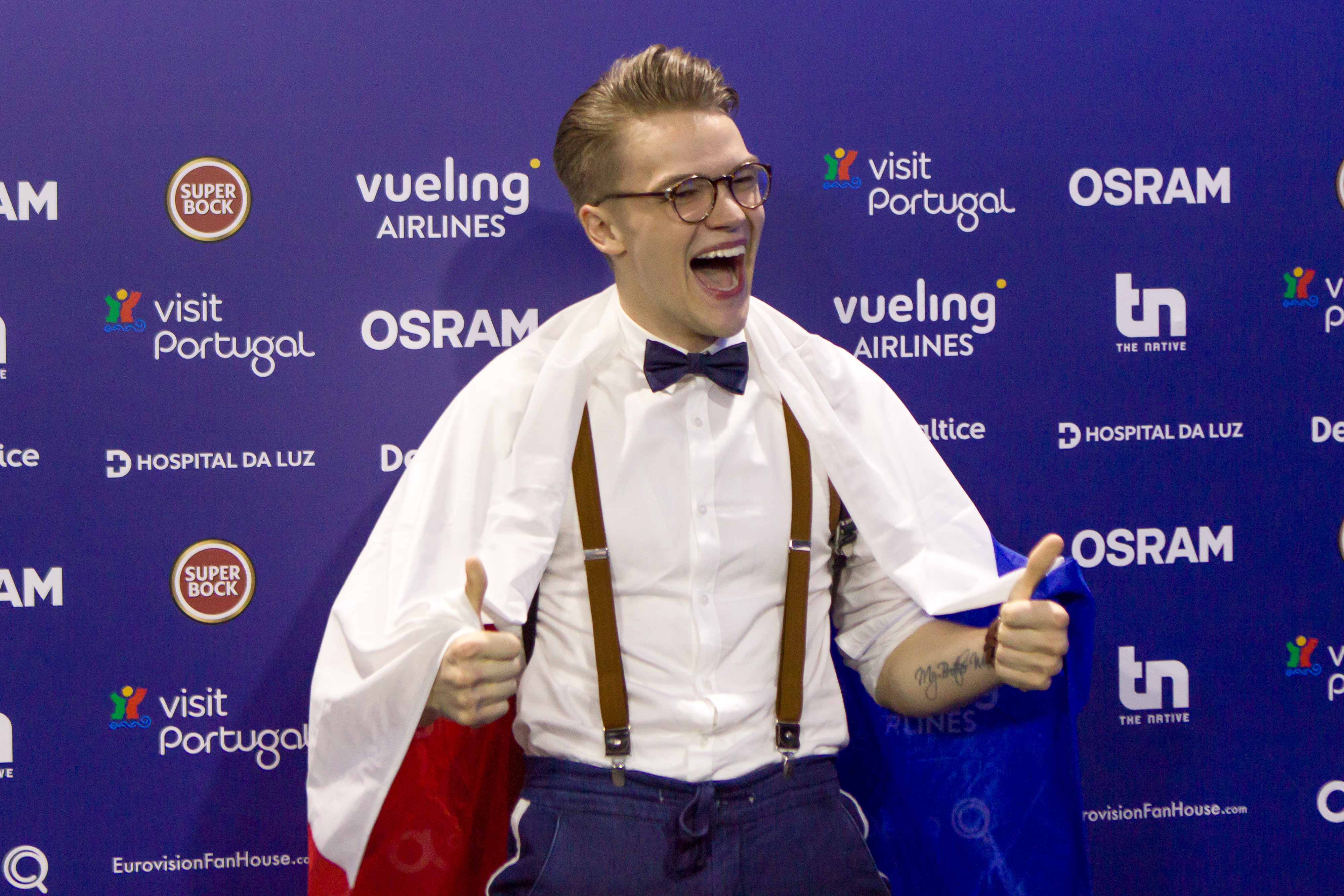 Press conference after the first Semi-Final of the 2018 Eurovision Song Contest